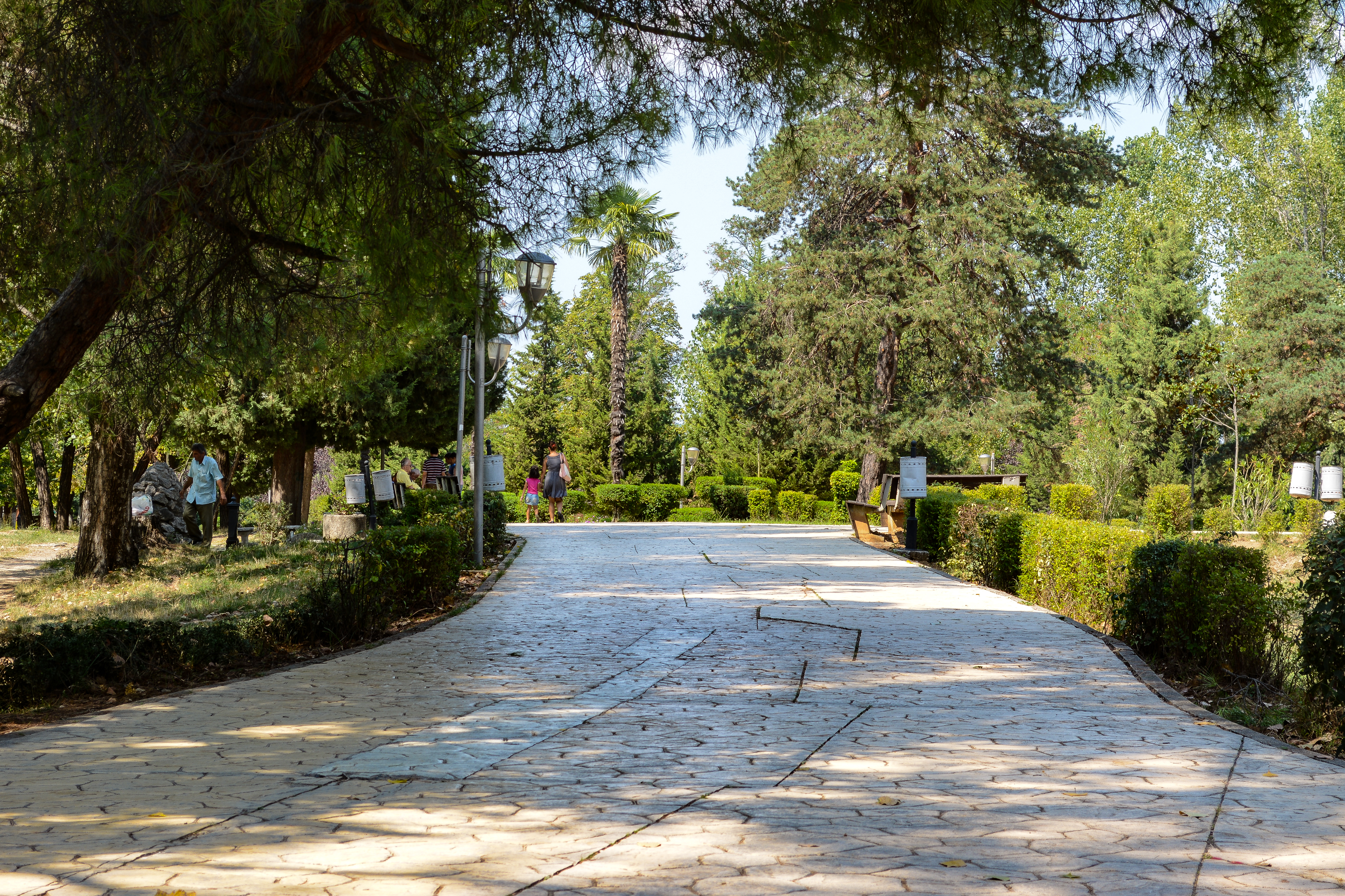 The Grand Park of Tirana